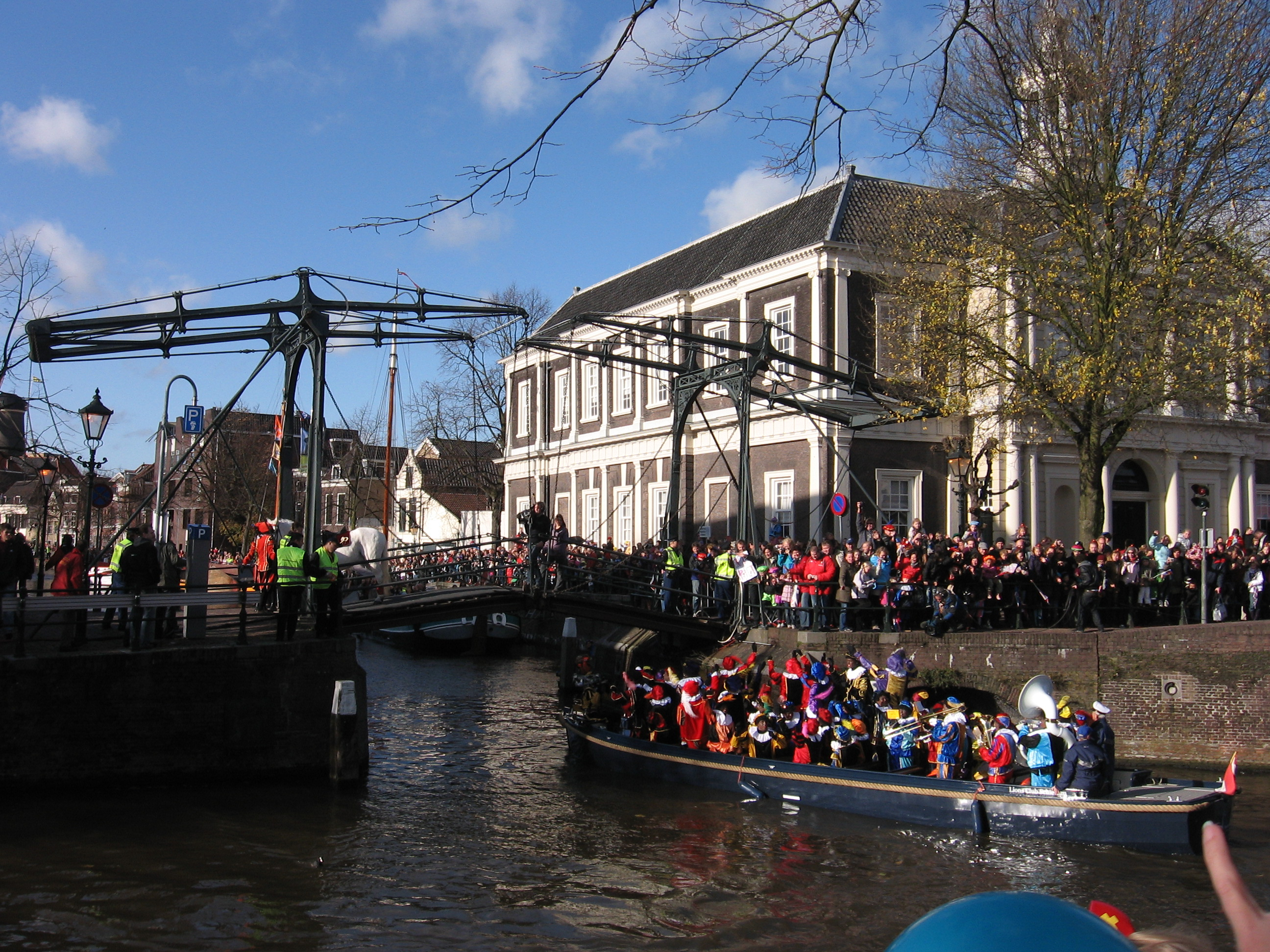 Schiedam, Korte havenbrug